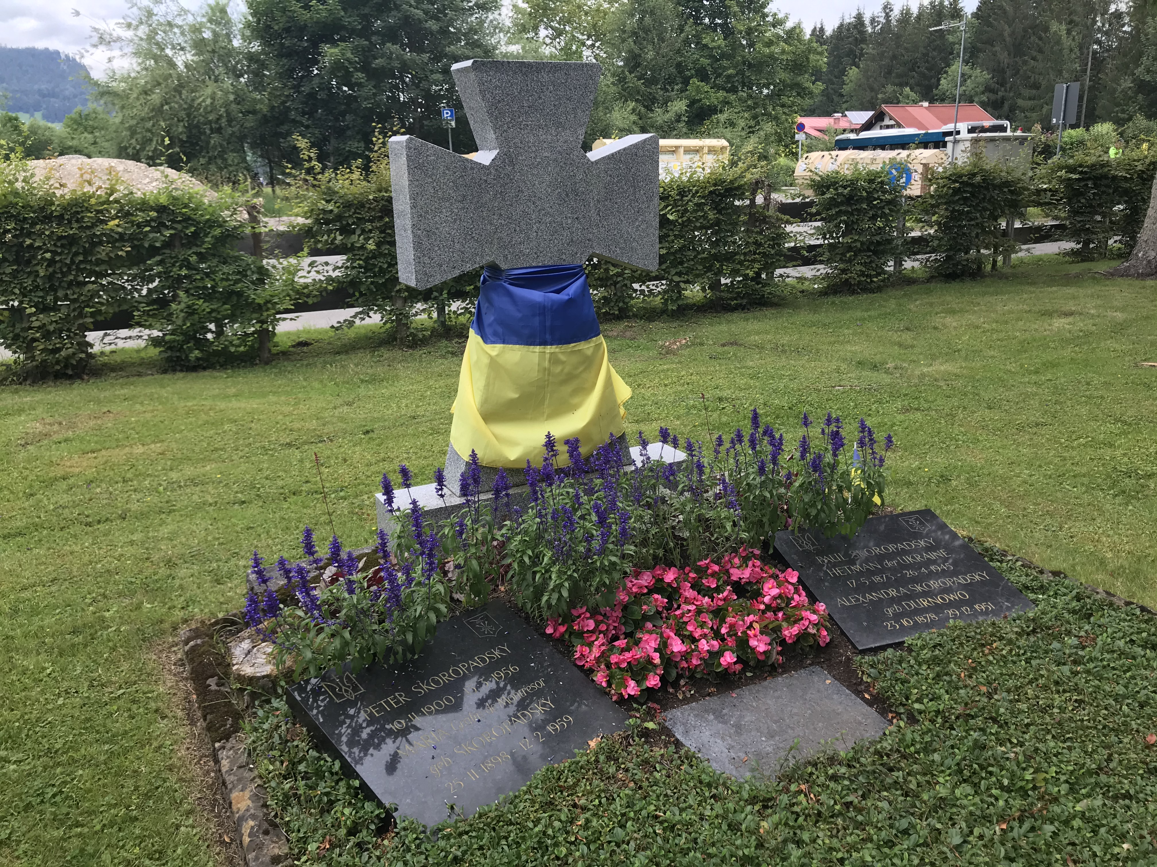 Pavlo Skoropadskyi grave in Oberstdorf, Germany, July 2020.